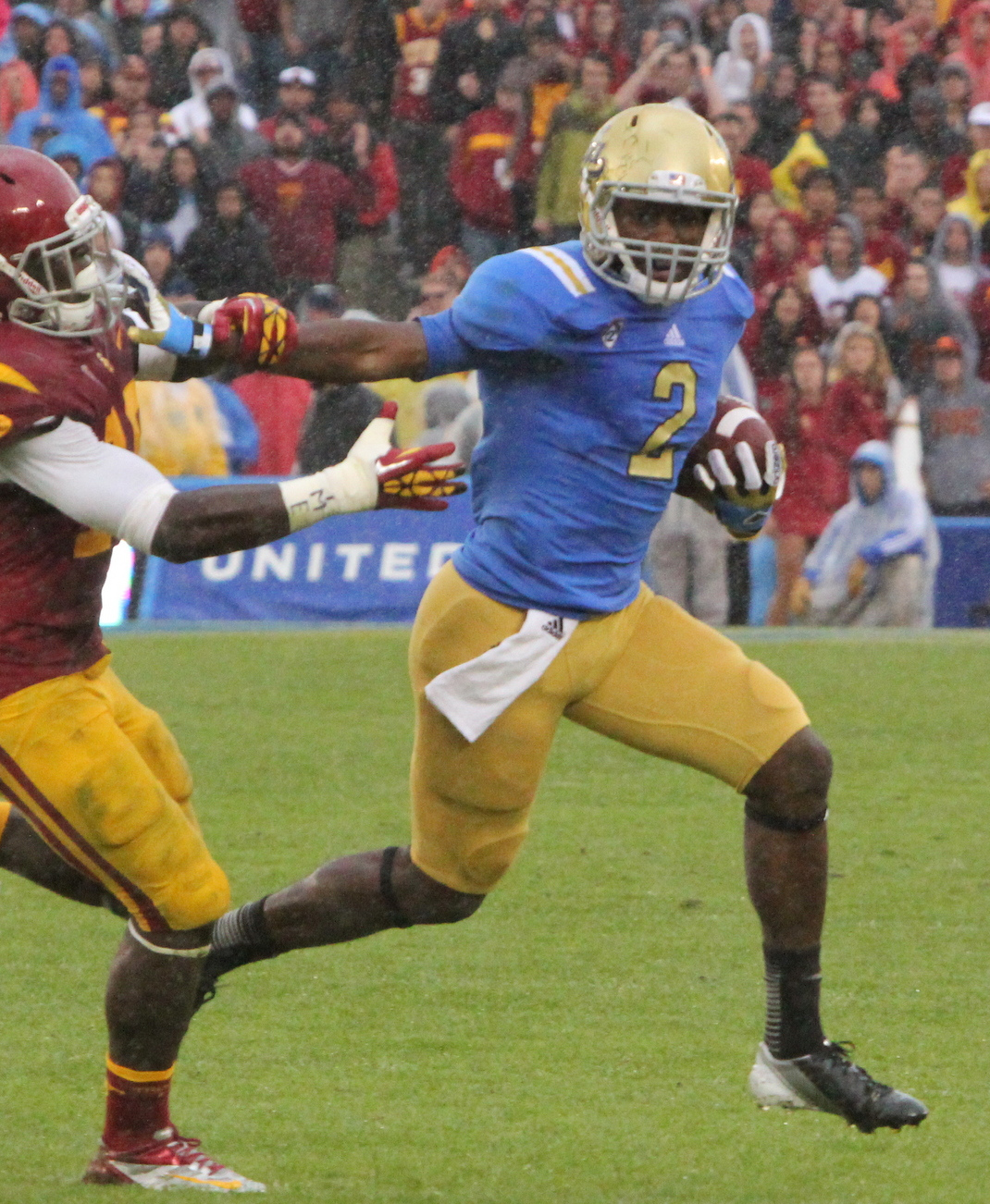 Devin Fuller of UCLA with ball against Dion Bailey of USC